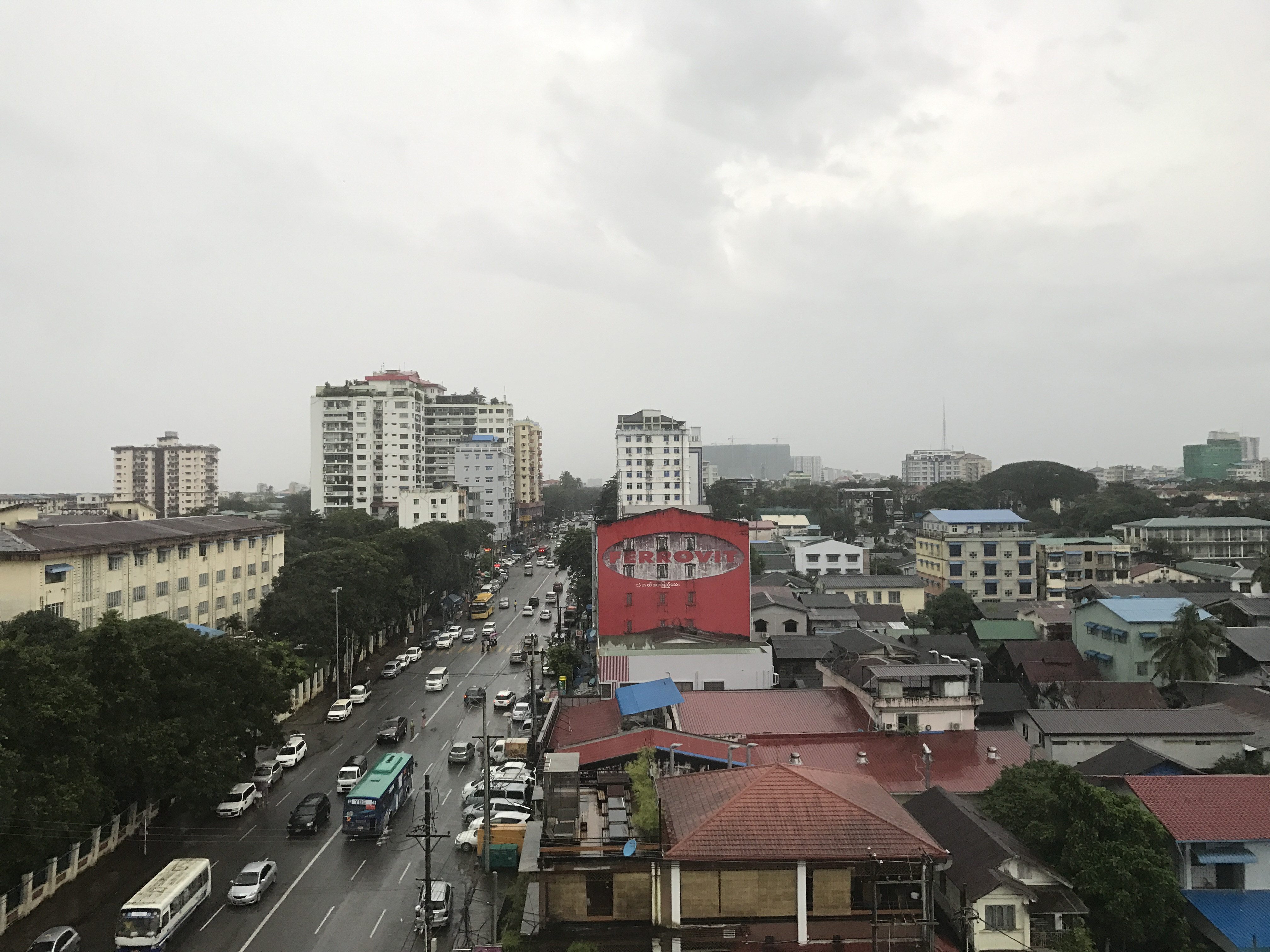 Kyimyindaing Skyline